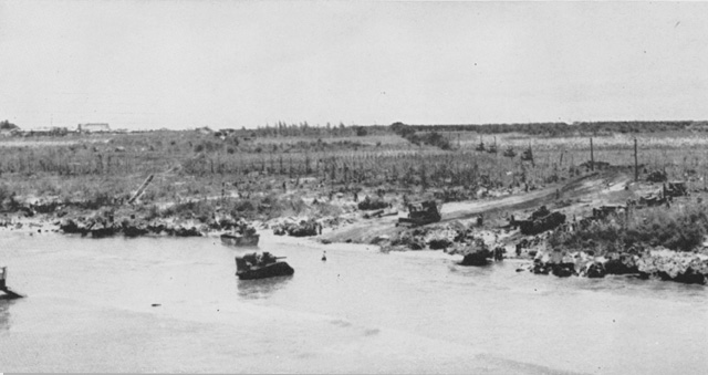 Tank runs on the bulldozers leveled reef. A bulldozer is the further flatten the ledge. Other tank go inland.